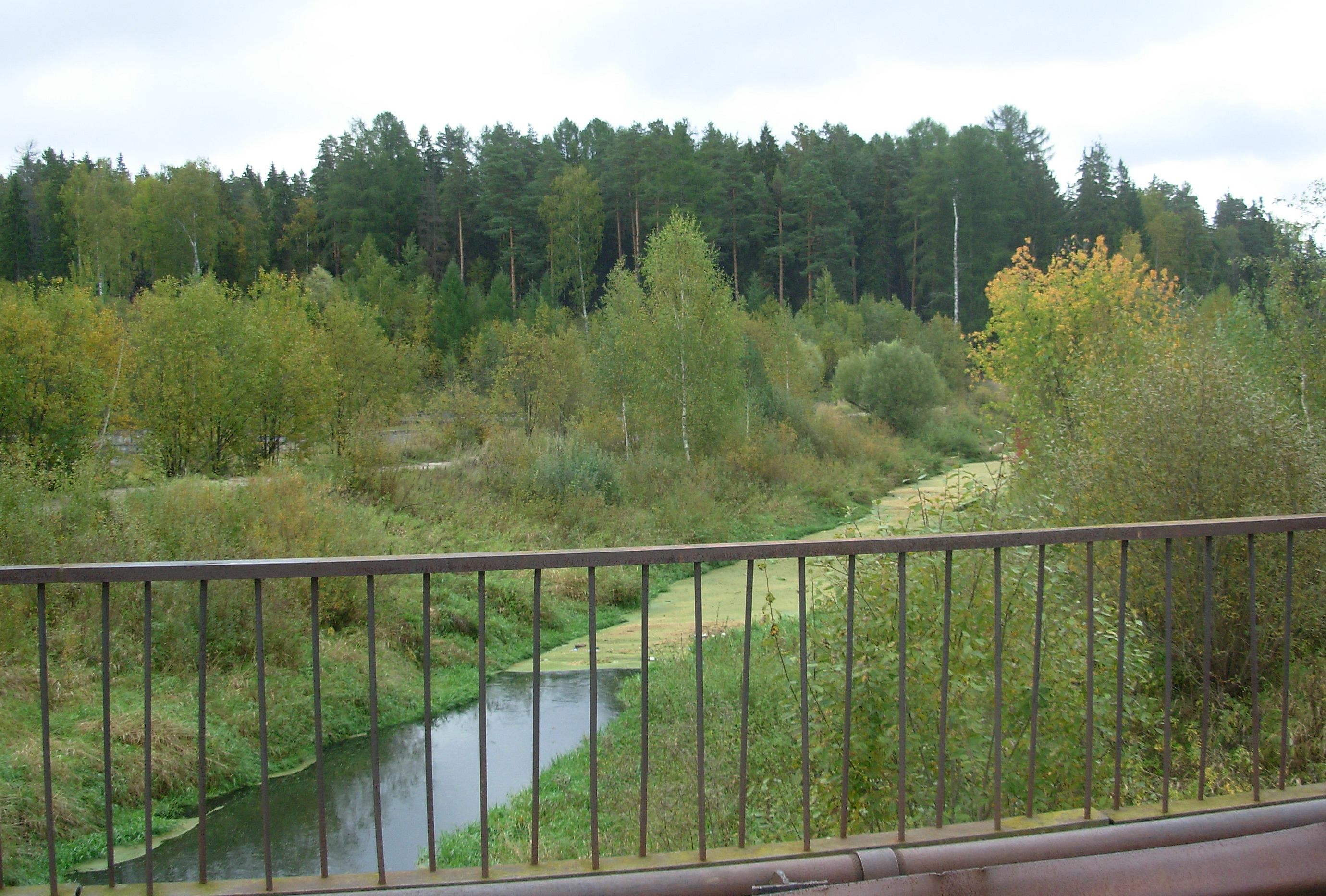 kliazma river in Mendeleevo